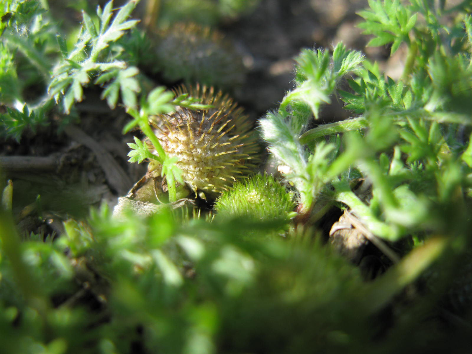 Introduced, cool-season, annual, low-growing, sparsely-hairy herb. Leaves are deeply divided. Flowerheads are axillary, forming dense clusters in the centre of the plant; they are ± globose and 5–12 mm diam. Fruits are spiny, but lack wings. Flowering is in spring and early summer. A native of South America, it is a weed of short or sparse lawns and roadsides in full sun. An indicator of poor ground cover. The spiny fruit can be a nuisance. Control is best achieved by maintaining a healthy vigorous pasture. If herbicides are used, application should be between in late autumn and winter, before fruiting has commenced.